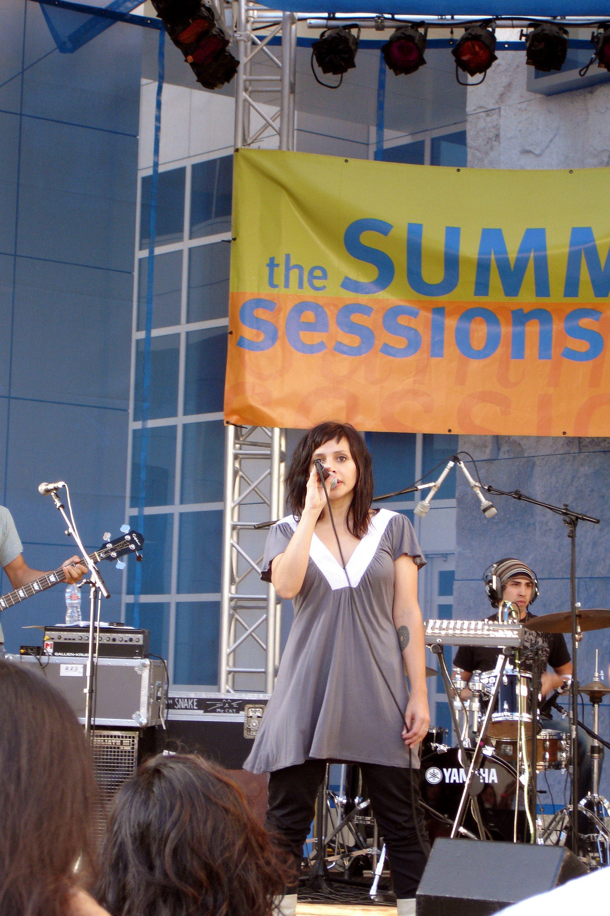 Cecilia Bastida, ex-member of Tijuana No! as solo-artist